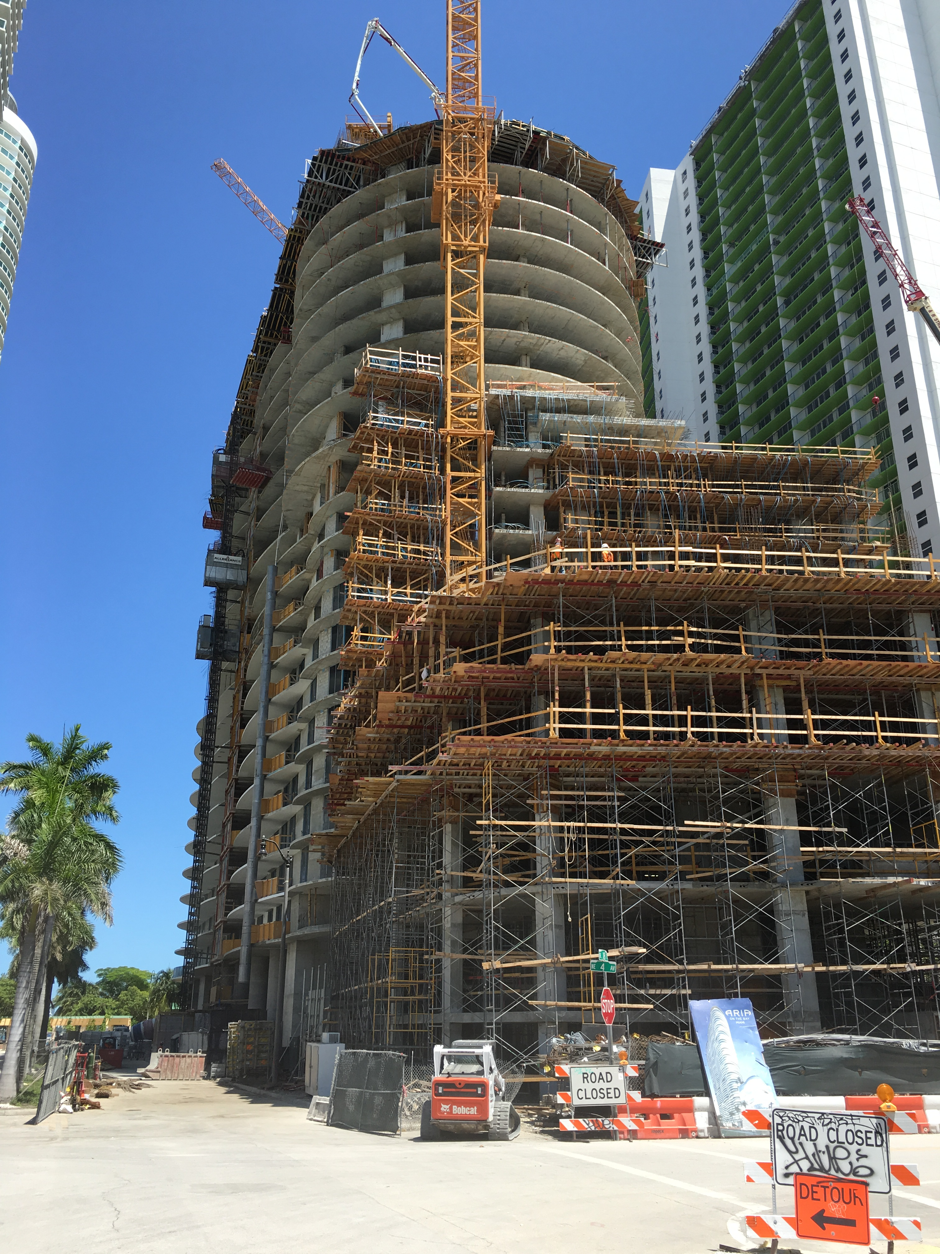 Aria on the Bay.